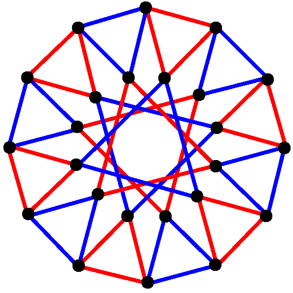 Complex polygon 3{6}2, with 24 vertices, and 16 3-edges in two groups of 8 red and blue triangles